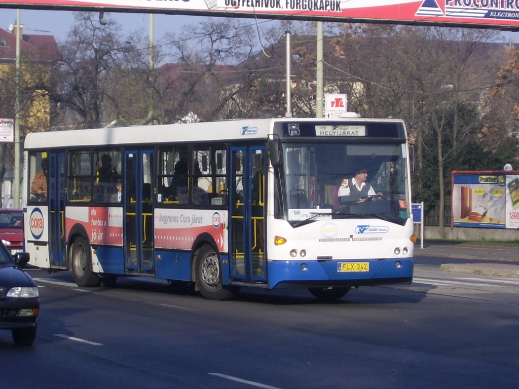 Bus of the public transport compaly "Tisza Volán", free transport service to the Cora hipermarket, financed by the supermarket chain betwen 2000 and 2010; Szeged, Hungary